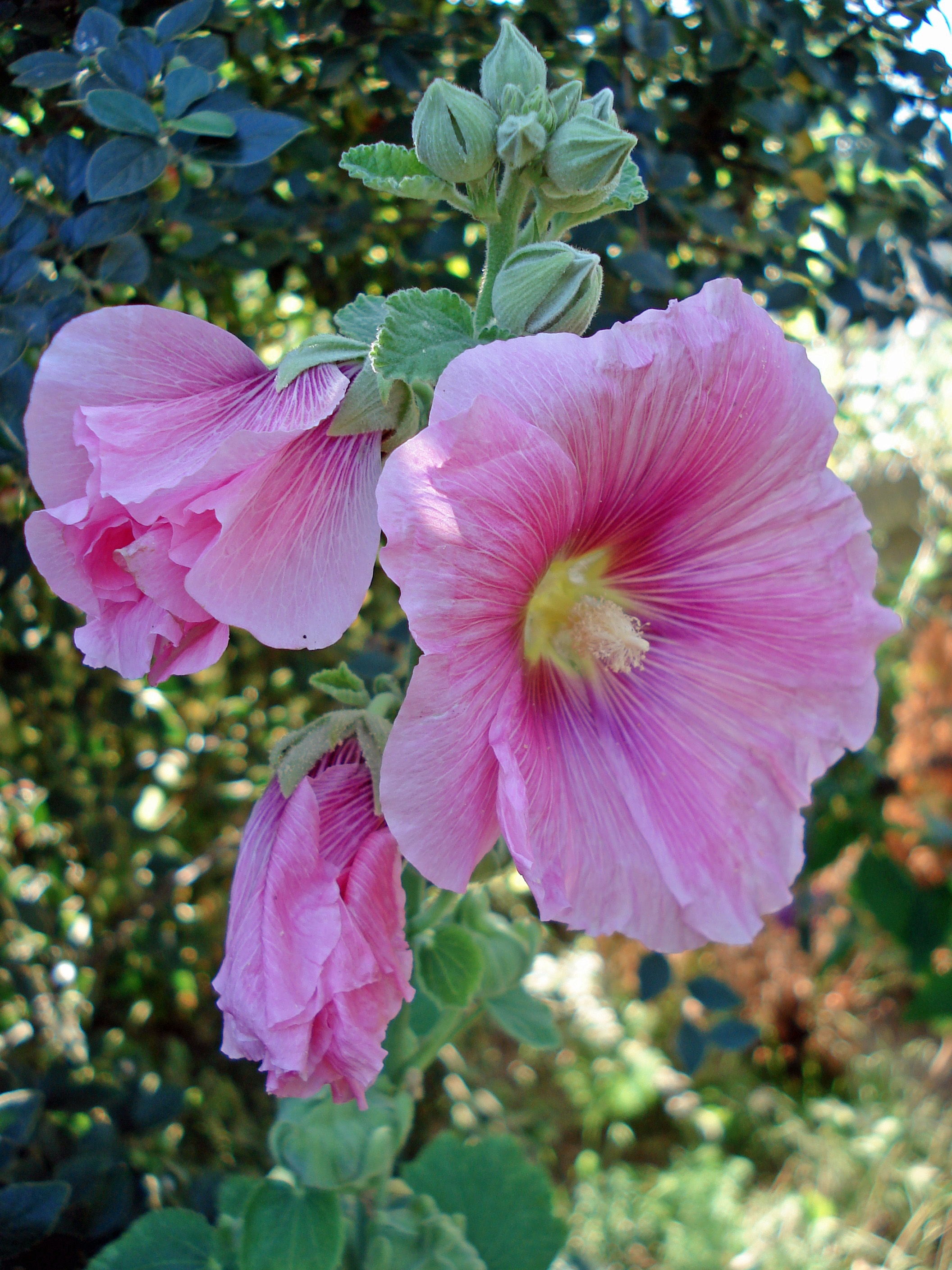 hollyhock.